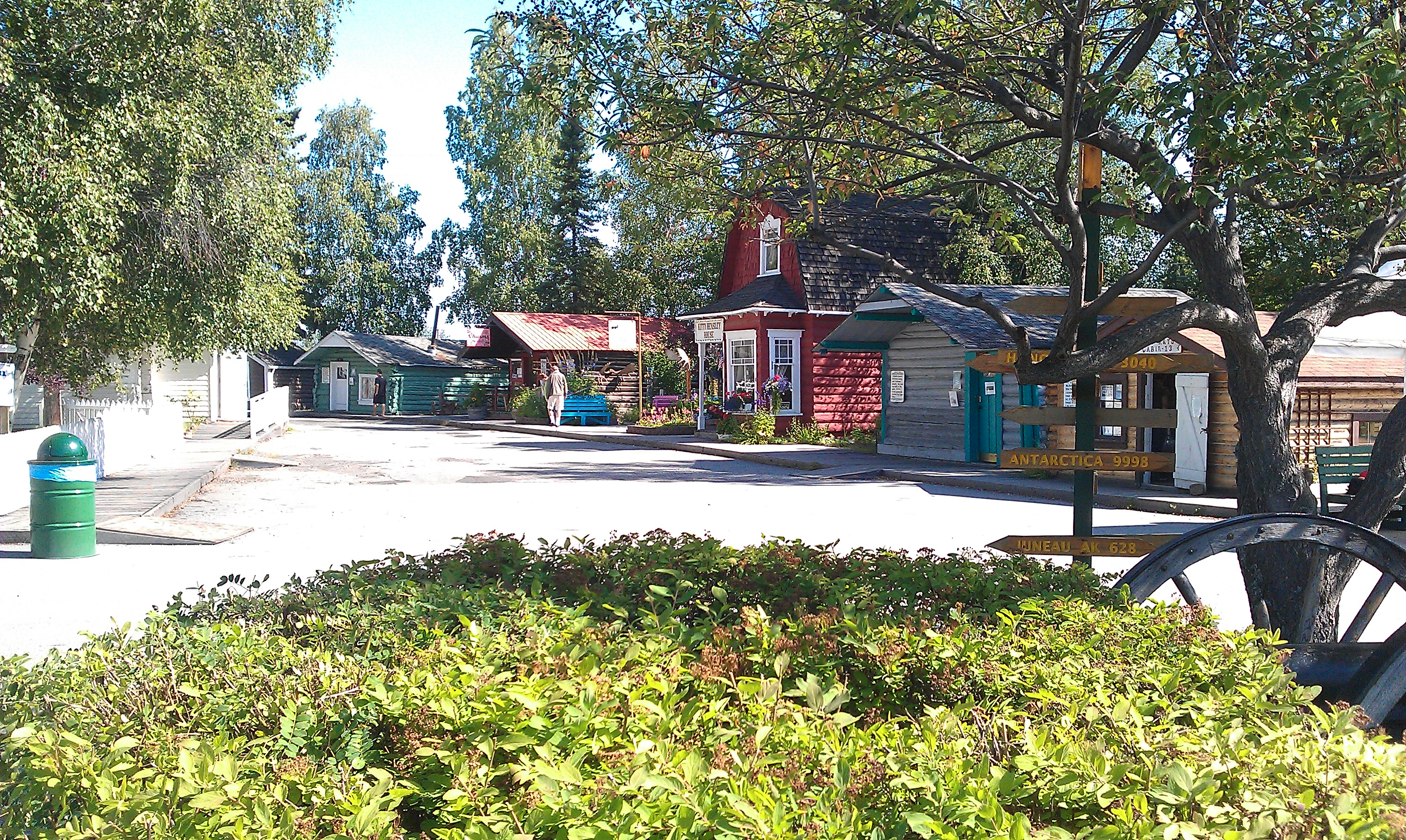 Gold Rush Town at Pioneer Park in Fairbanks, Alaska. This was created by moving many older buildings from the center of town during periods of urban renewal and other forms of modern development.